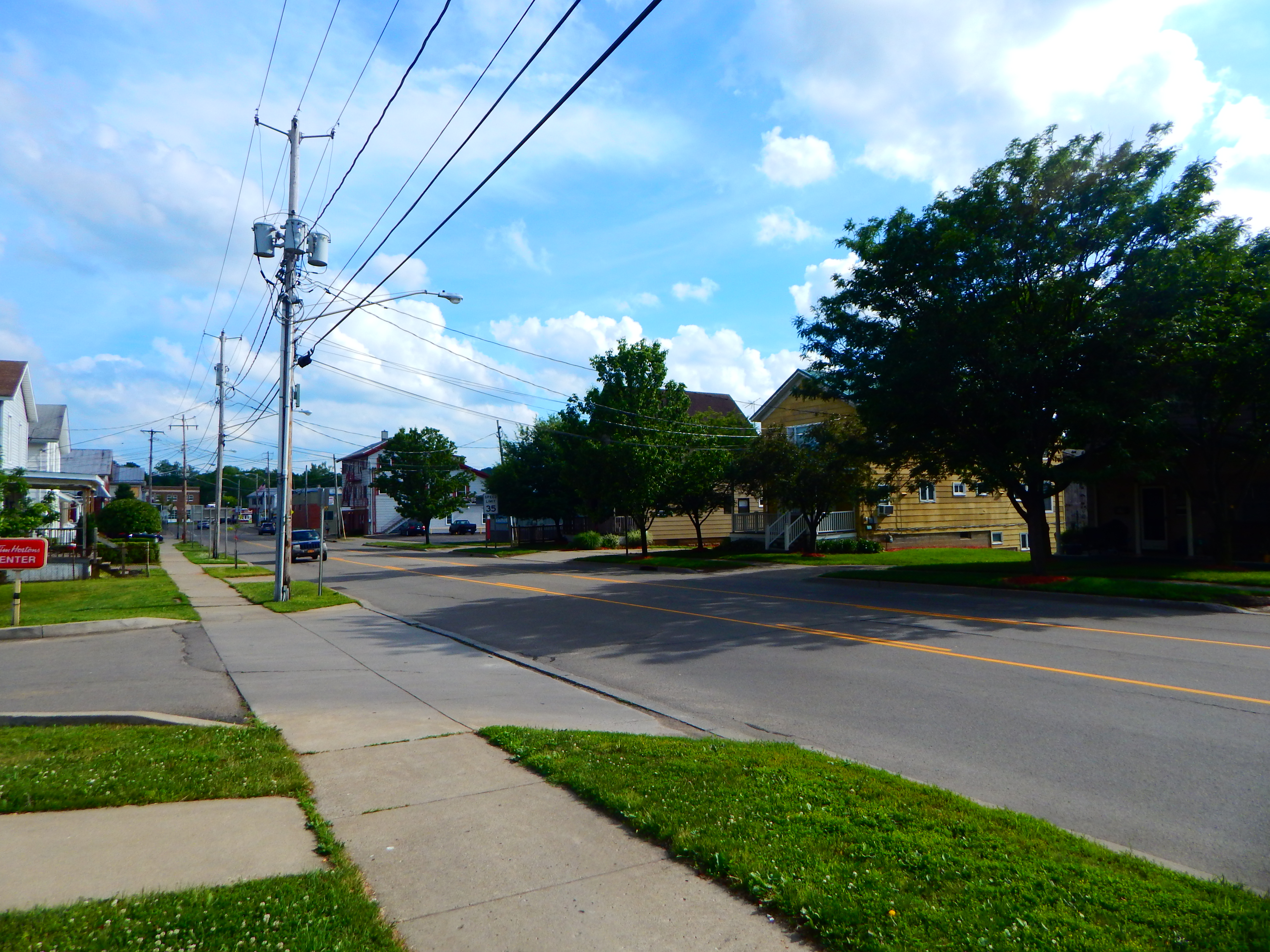 U.S. Route 62 in Gowanda, New York.